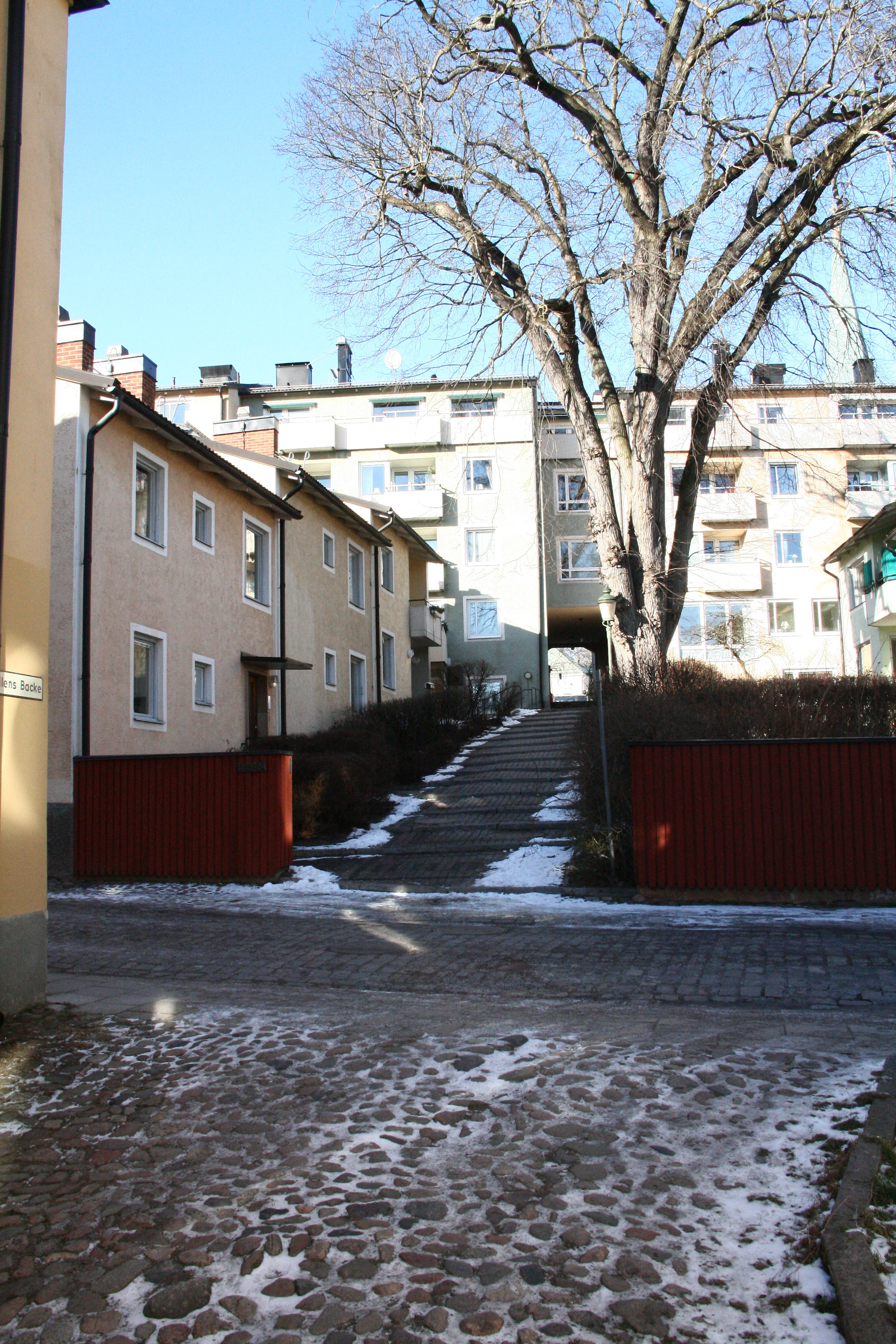 "Pilens backe", an old street in Linköping.